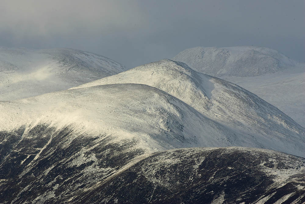 The name "Breadalbane" is generally thought to be an English language corruption of the gaelic "Bràghaid Albainn" meaning the High country of Scotland. This area is geographically the heart of Scotland and was once also its political centre lying firmly within the land of the Picts, an enigmatic people who, in large part gave rise to the modern Scots.